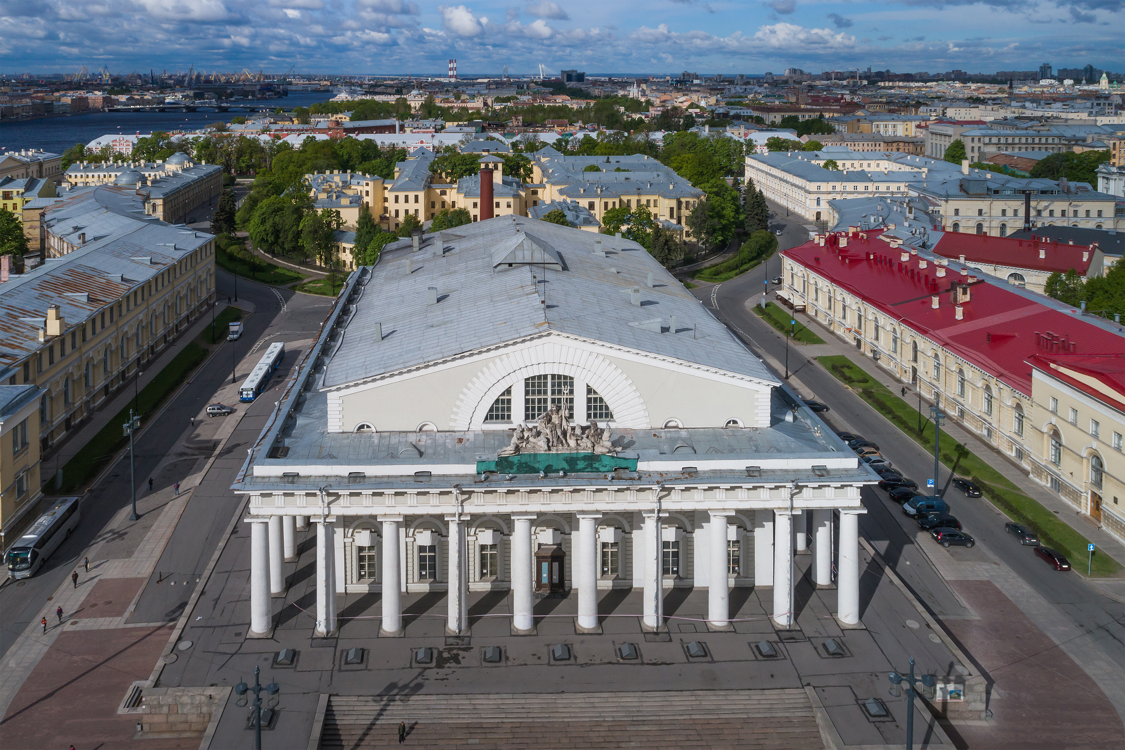 Aerial photo of the Vasilievsky Island Spit in Saint Petersburg (Russia).